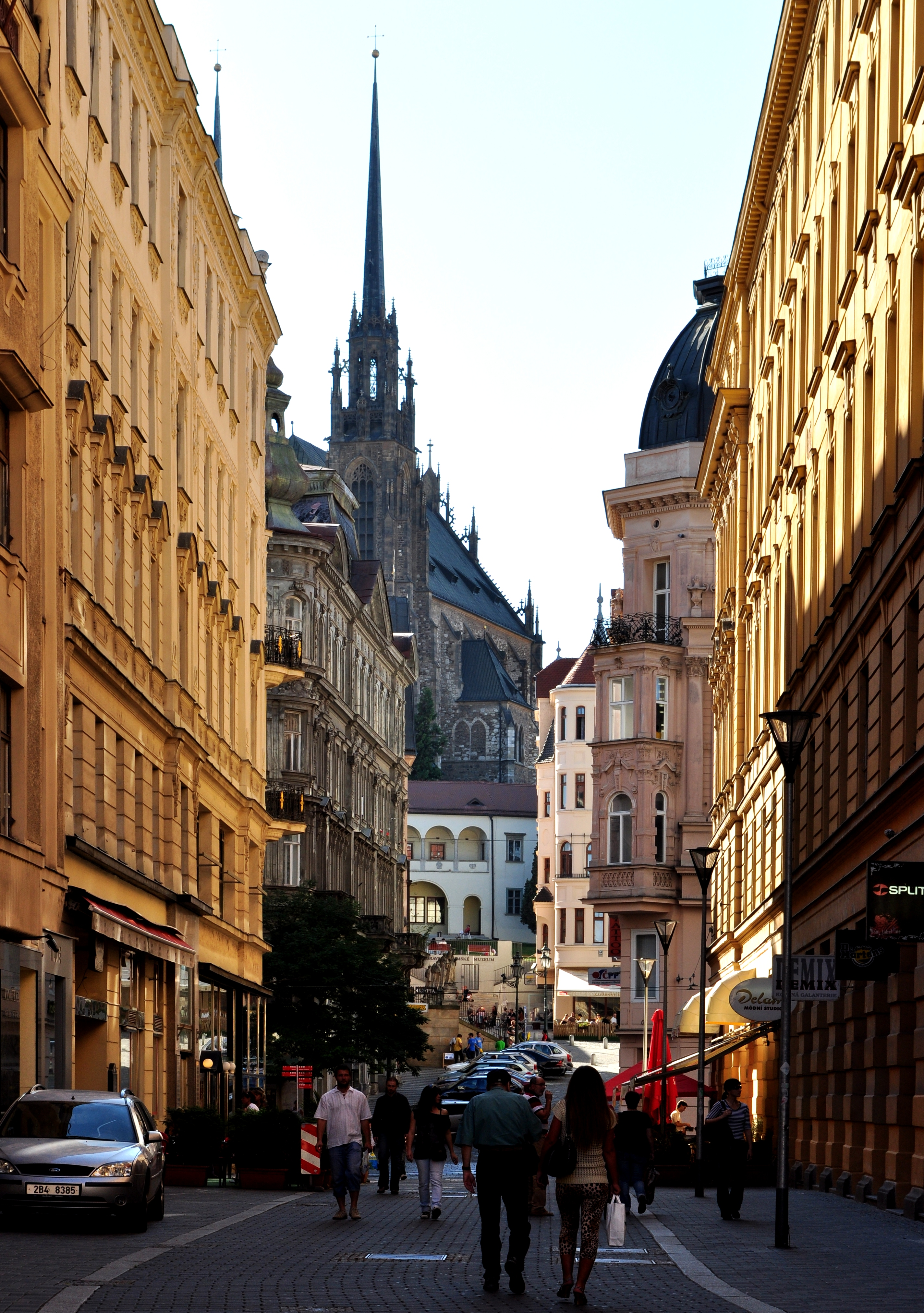 Josefská street in Brno